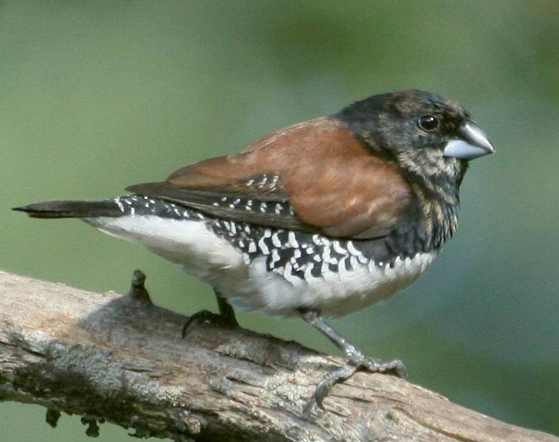 Once considered a subspecies of Black-and-white Mannikin (Lonchura bicolor, syn. Spermestes bicolor), but many authorities now split the birds from south-eastern Africa as Red-backed or Brown-backed Mannikin (L. nigriceps). This is an immature bird; adults have all-black head, throat and breast.